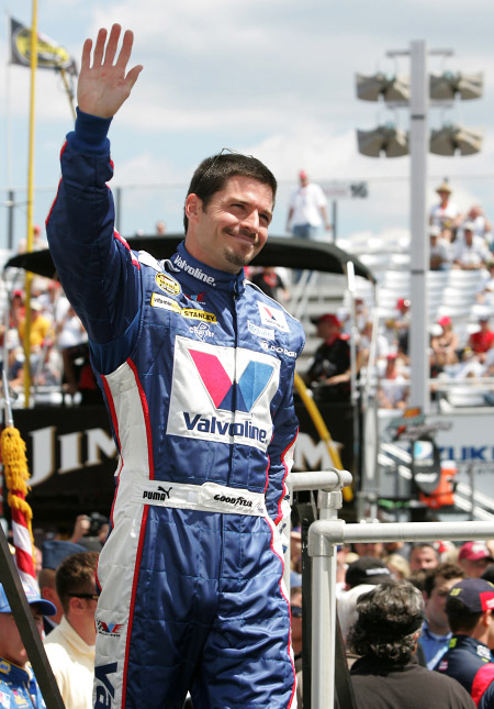 Patrick Carpentier during pre-race driver introductions at Watkins Glen for the 2007 Centurion Boats at the Glen NASCAR race.